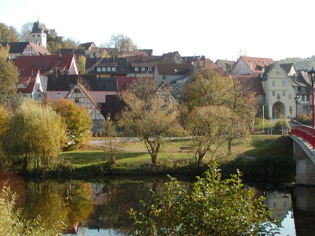 Forchtenberg viewed from the north bank of the Kocher river